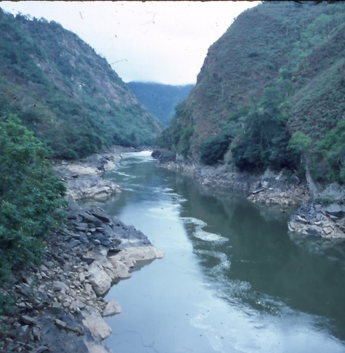 Kouilou river near Sounda